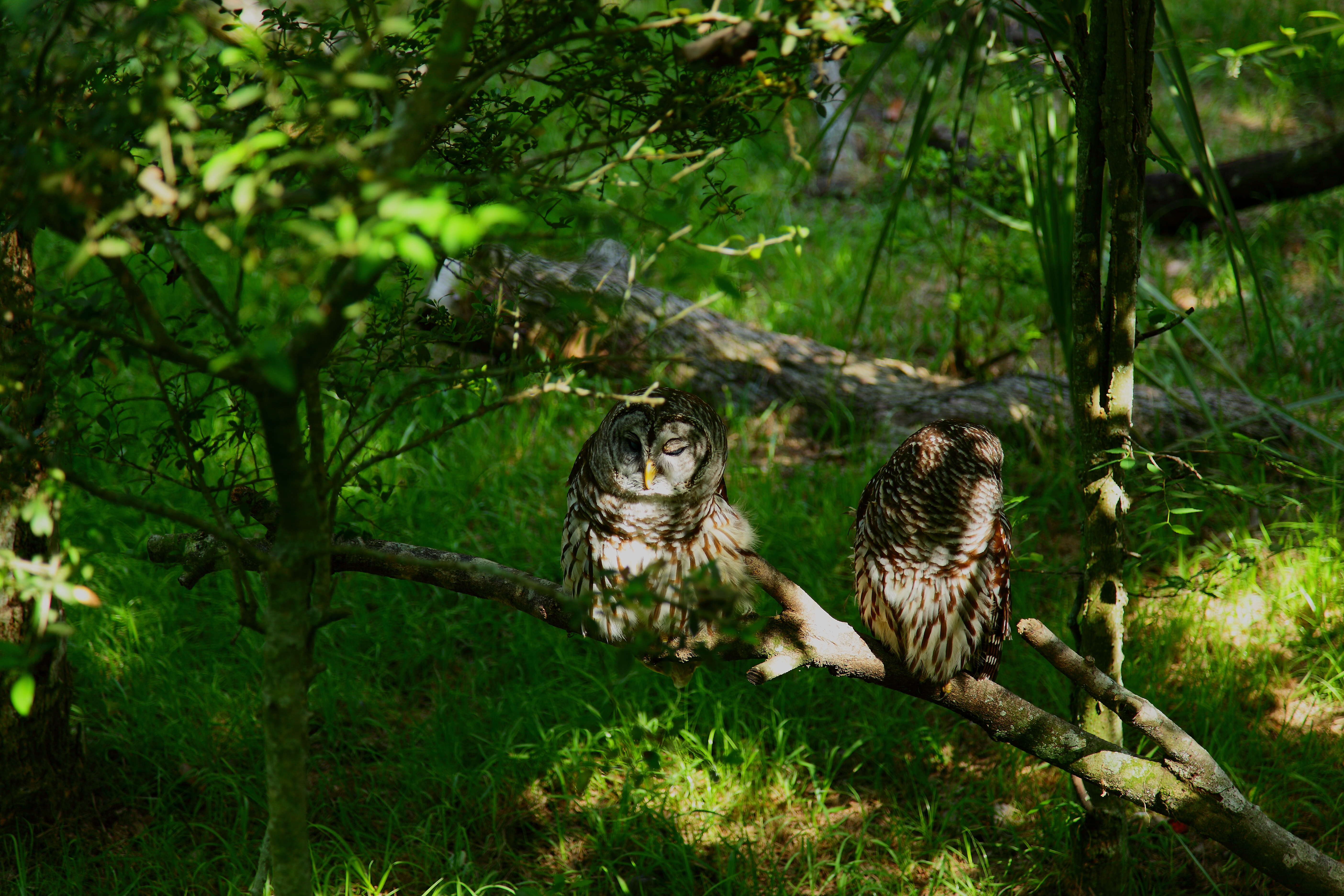 Two Barred Owls Strix varia perched on a branch